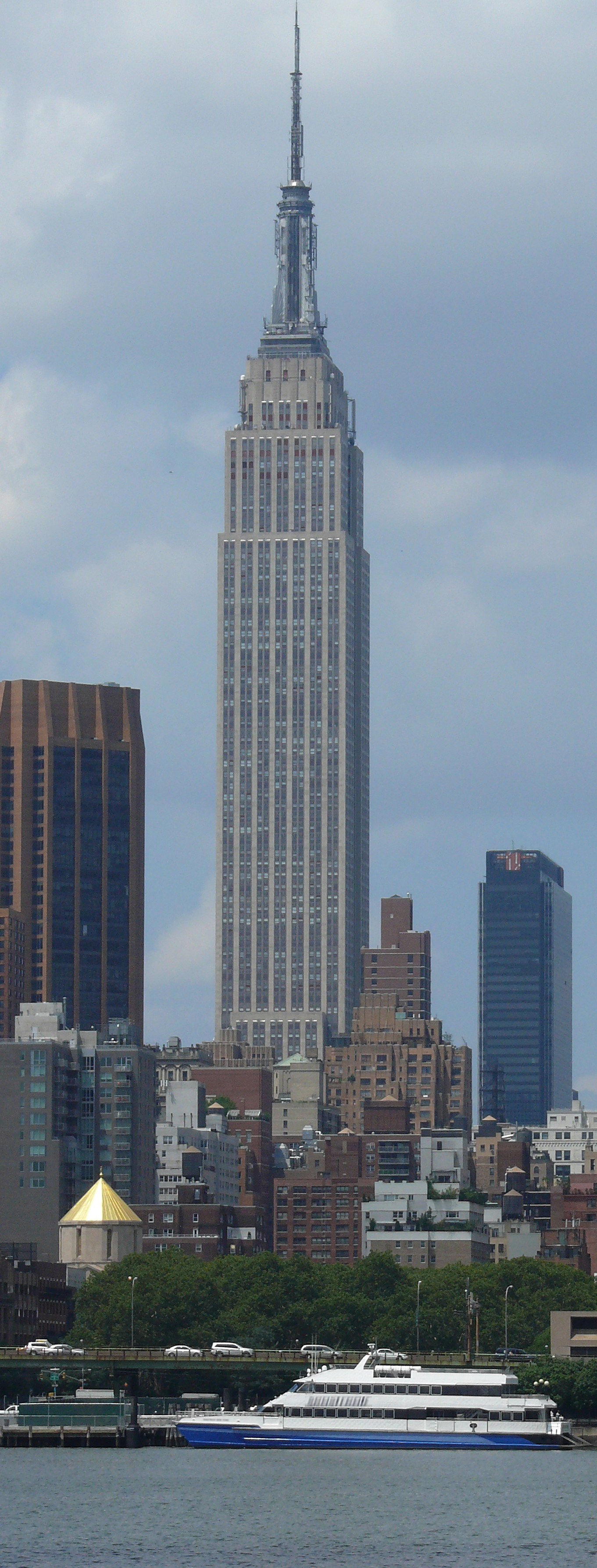 The Empire State Building seen from the East River.